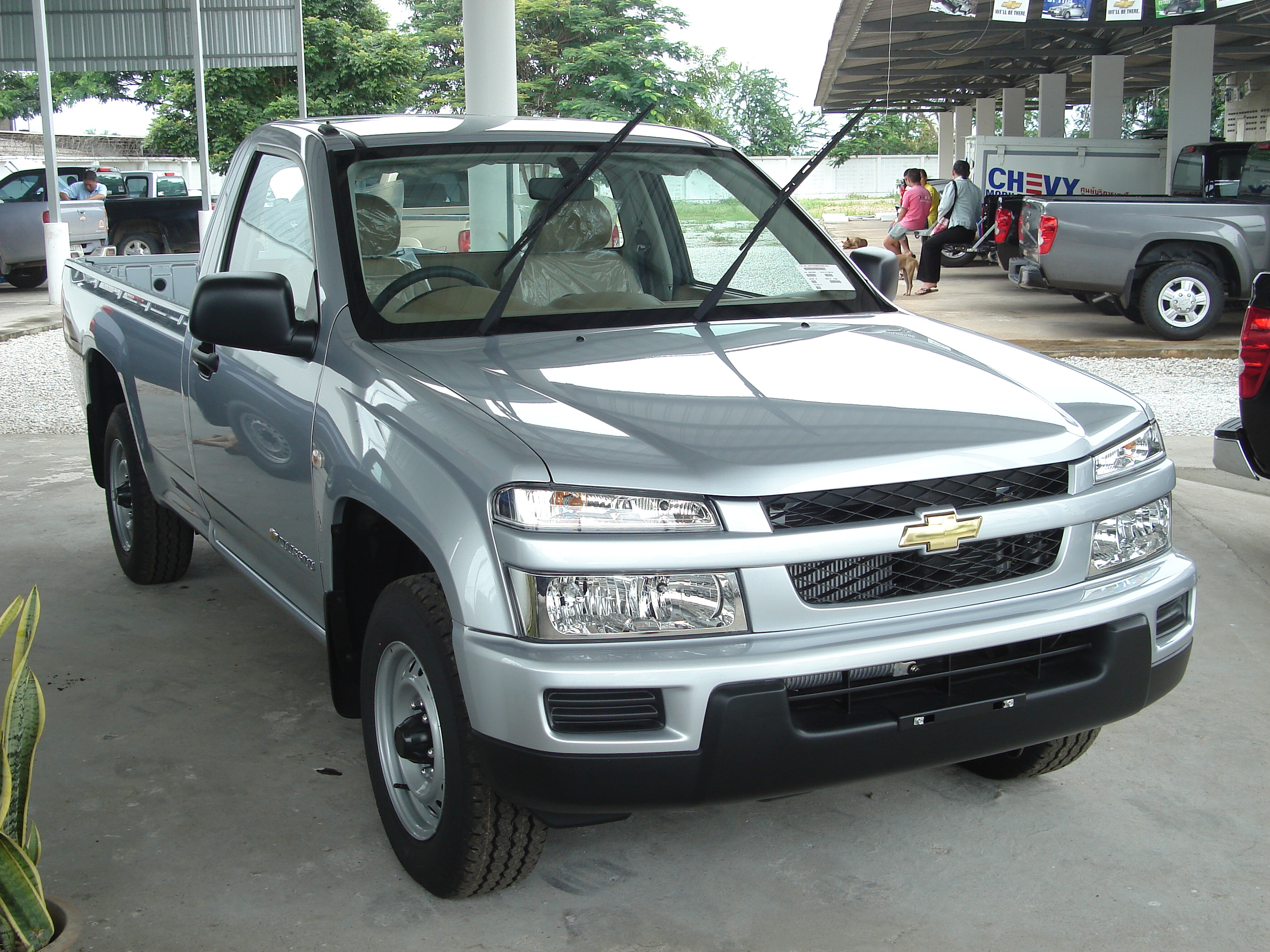 Chevrolet Colorado - Tak, Thailand